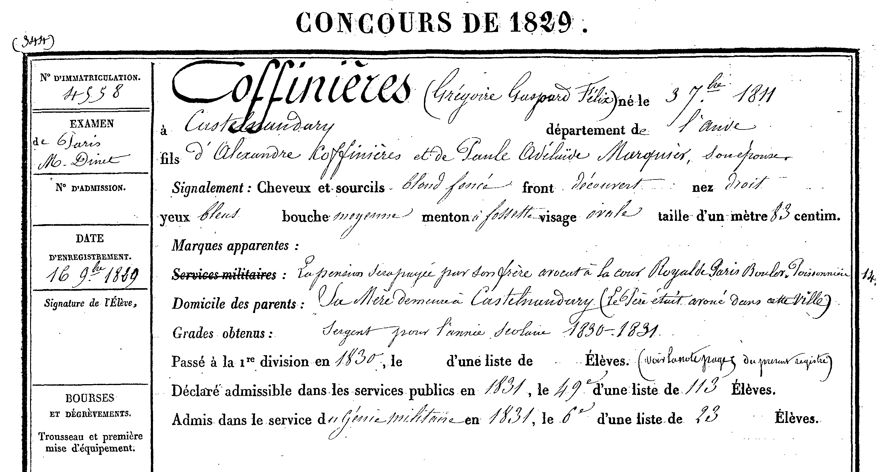 Service record of Grégoire Gaspard Félix Coffinières, later Coffinières de Nordeck, at the French Ecole polytechnique as a student.